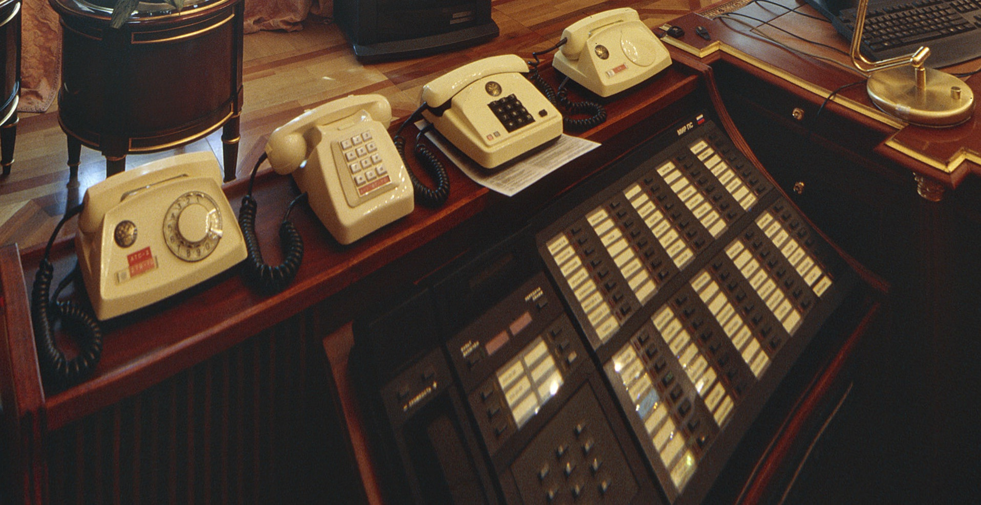 President telephones. Senate Palace. Moscow Kremlin